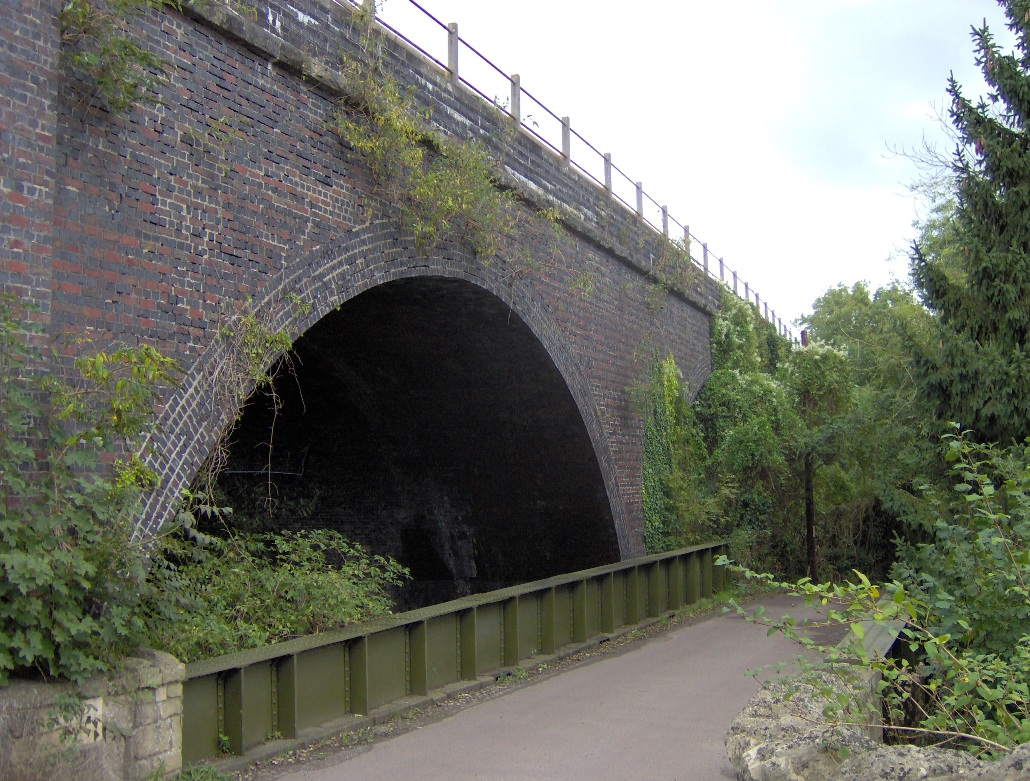 Arch of the railway bridge at Midford. Taken by Rod Ward Oct 2006